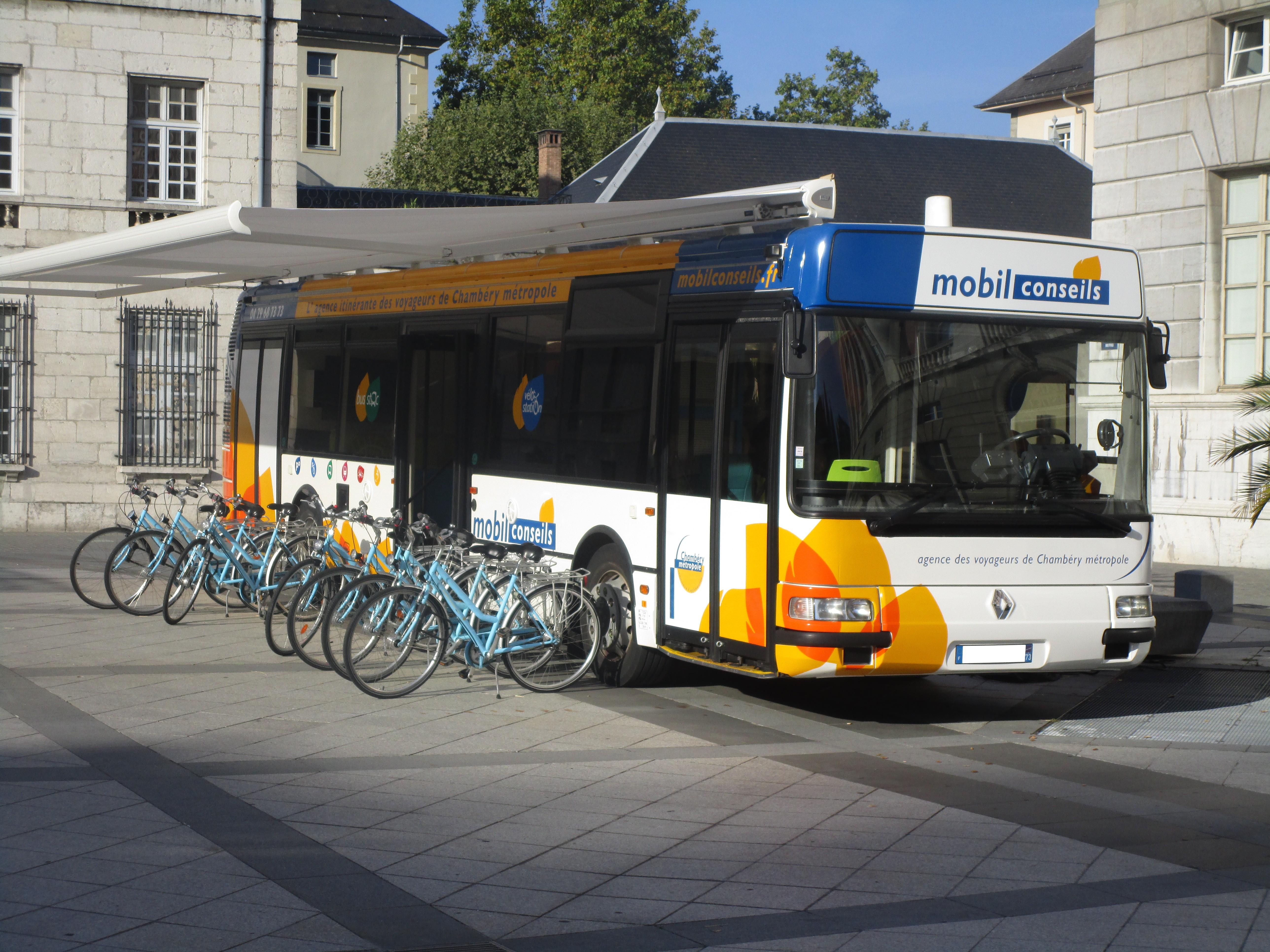 The former Renault Agora S n°2004 of the Stac, now use as mobile agency, on the Place du Palais de Justice in Chambéry on August 31, 2015.